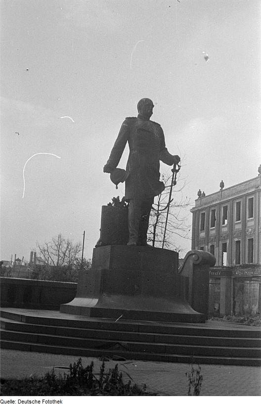 Original image description from the Deutsche FotothekSommer 1947